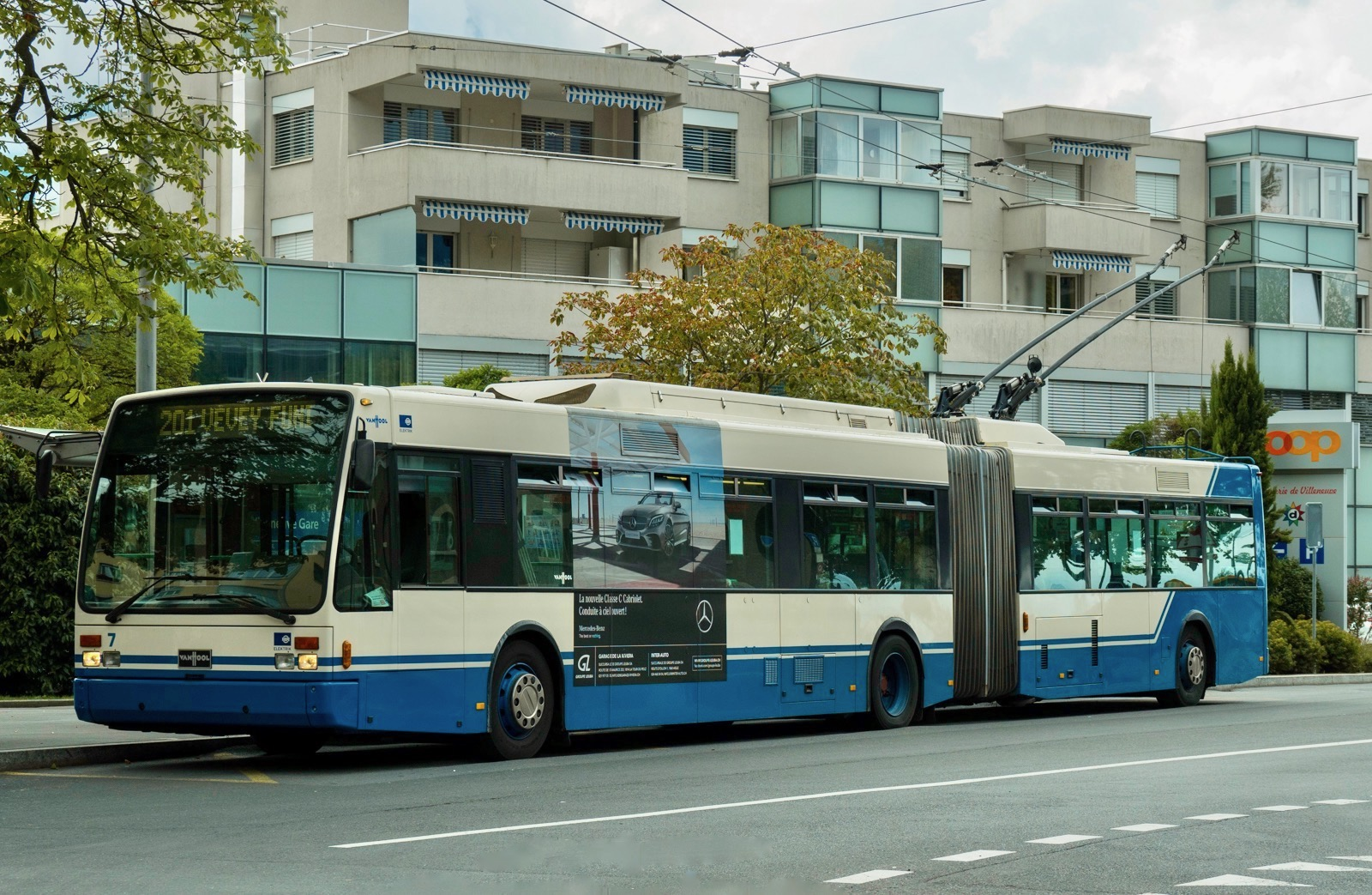 VMCV trolleybus 7, a 1995 Van Hool AG300T, laying over at Villeneuve terminus, on Rue du Collège.